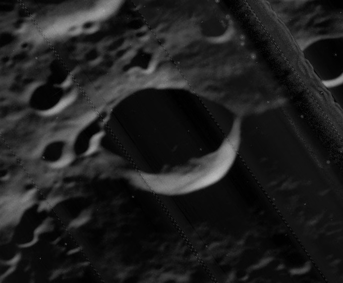 Oblique view of Thiel, on the far side of the moon, facing west. Band crossing image is artifact of original.